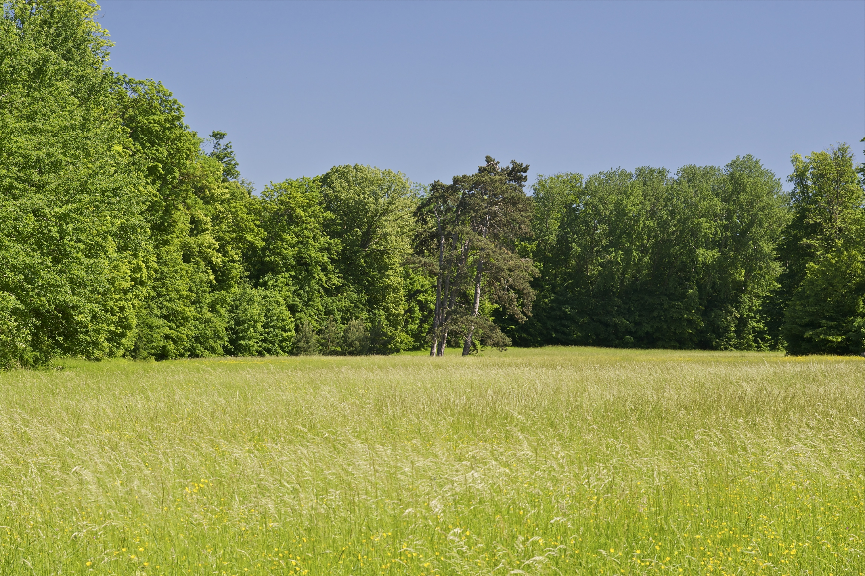 Meadow at forest edge, park of castle of Champs-sur-Marne, Seine-et-Marne, France.